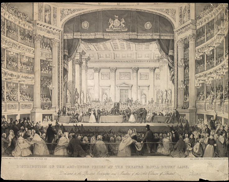 Prize distribution of the Art Union of London in the Theatre Royal, Drury Lane Victoria and Albert Museum, London, Museum number: S.41-2008